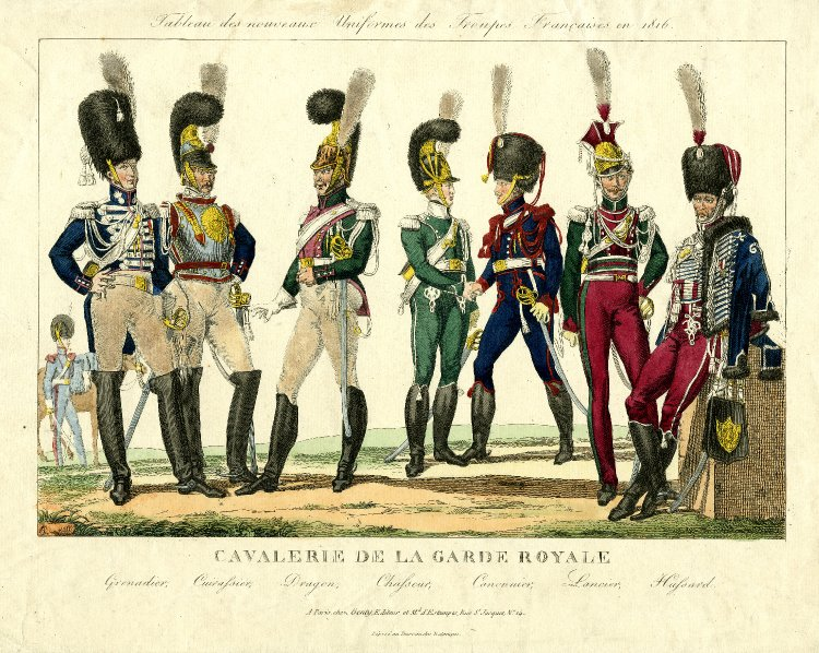 19th-century engraving depicting the uniforms of the cavalry of the French Royal guard